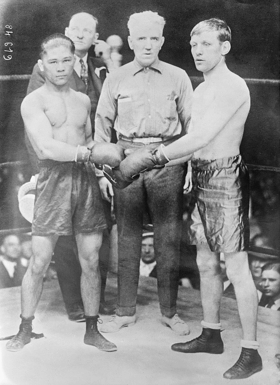 [Jimmy] Wilde (right) And [Pancho] Villa (left) in the ring before their match, on June 18, 1923 [press photograph]